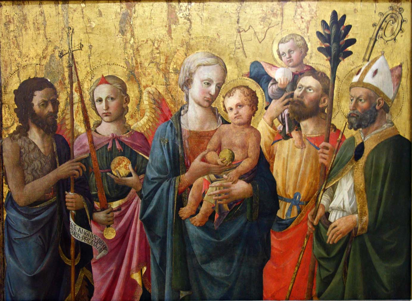 "Madonna and Saints" by Mechilino; National Museum of Fine Arts; Valletta; Malta